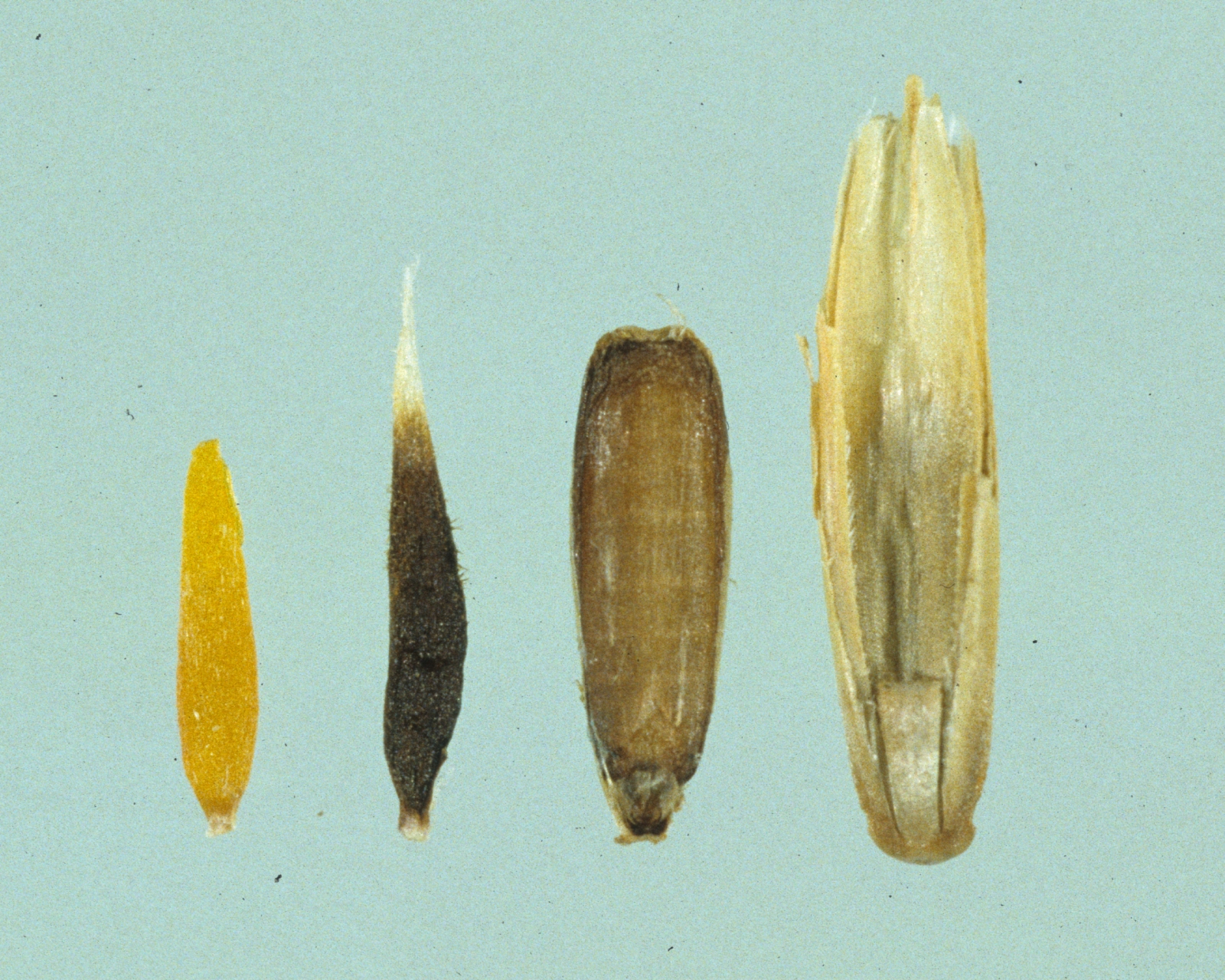 From left to right: (1) nematode gall colonised by the toxigenic bacterium, Rathayibacter toxicus, (2) Anguina funesta gall, (3) Lolium rigidum seed, and (4) Lolium rigidum diaspore.